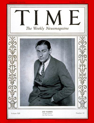 Time magazine, Volume 12 Issue 10. Front cover is a photograph of Jed Harris.